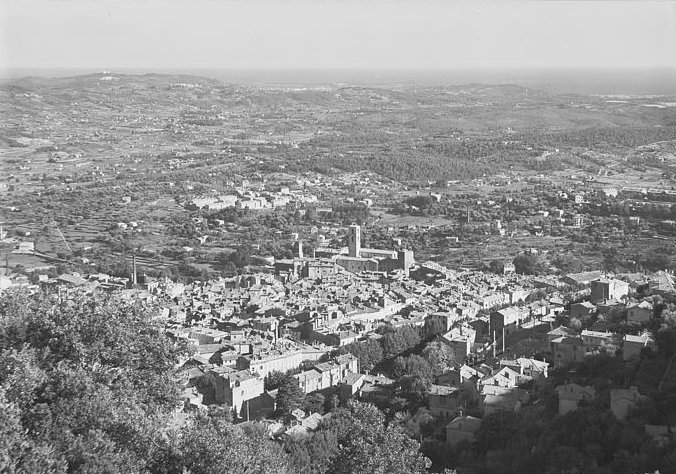 View of Grasse, located inland of Cannes on the French Riviera in the department of Alpes-Maritimes